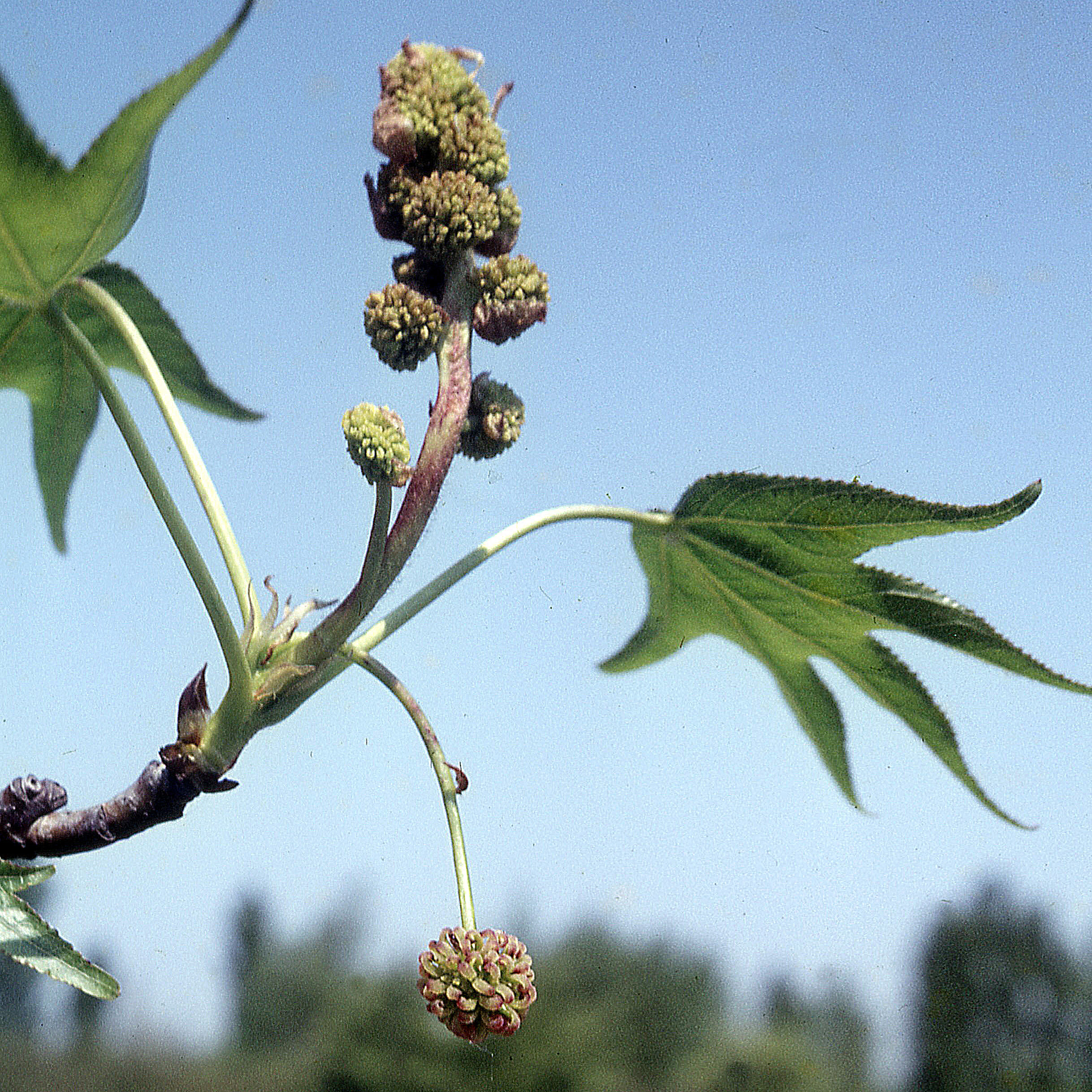 Liquidambar styraciflua male and female inflorescence